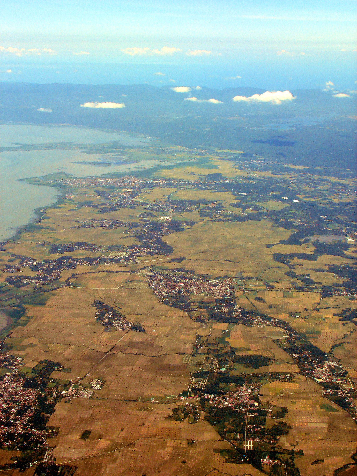 Aerial view of Laguna Province, Philippines, with Pila in foreground, Santa Cruz in centre, and Lumban in the distance. A small portion of Laguna de Bay is also visible.